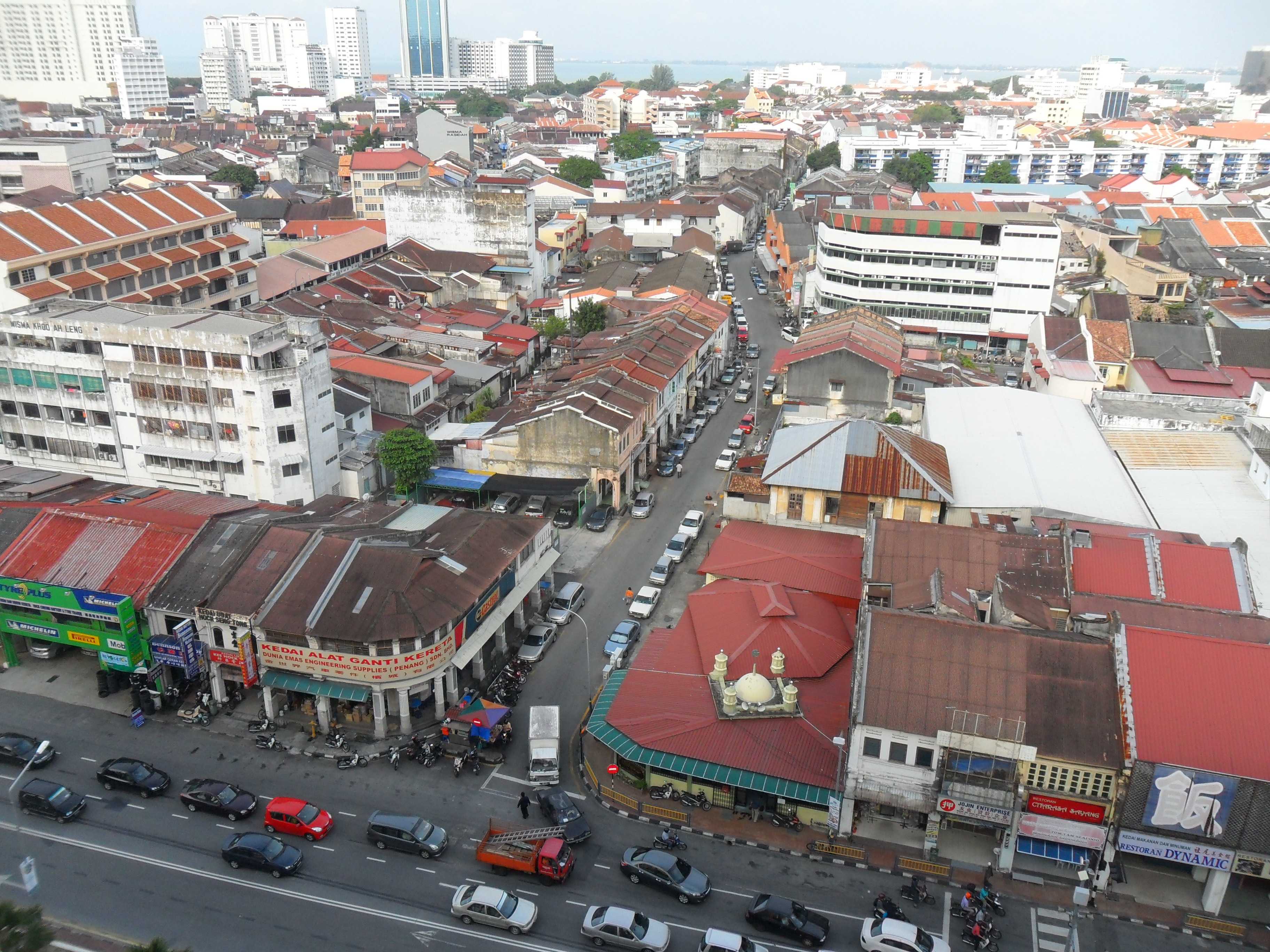 Aerial view of the old town of George Town, Malaysia, with Jalan Pintal Tali, formerly known as Rope Walk, running off Jalan Lim Chwee Leong (foreground).